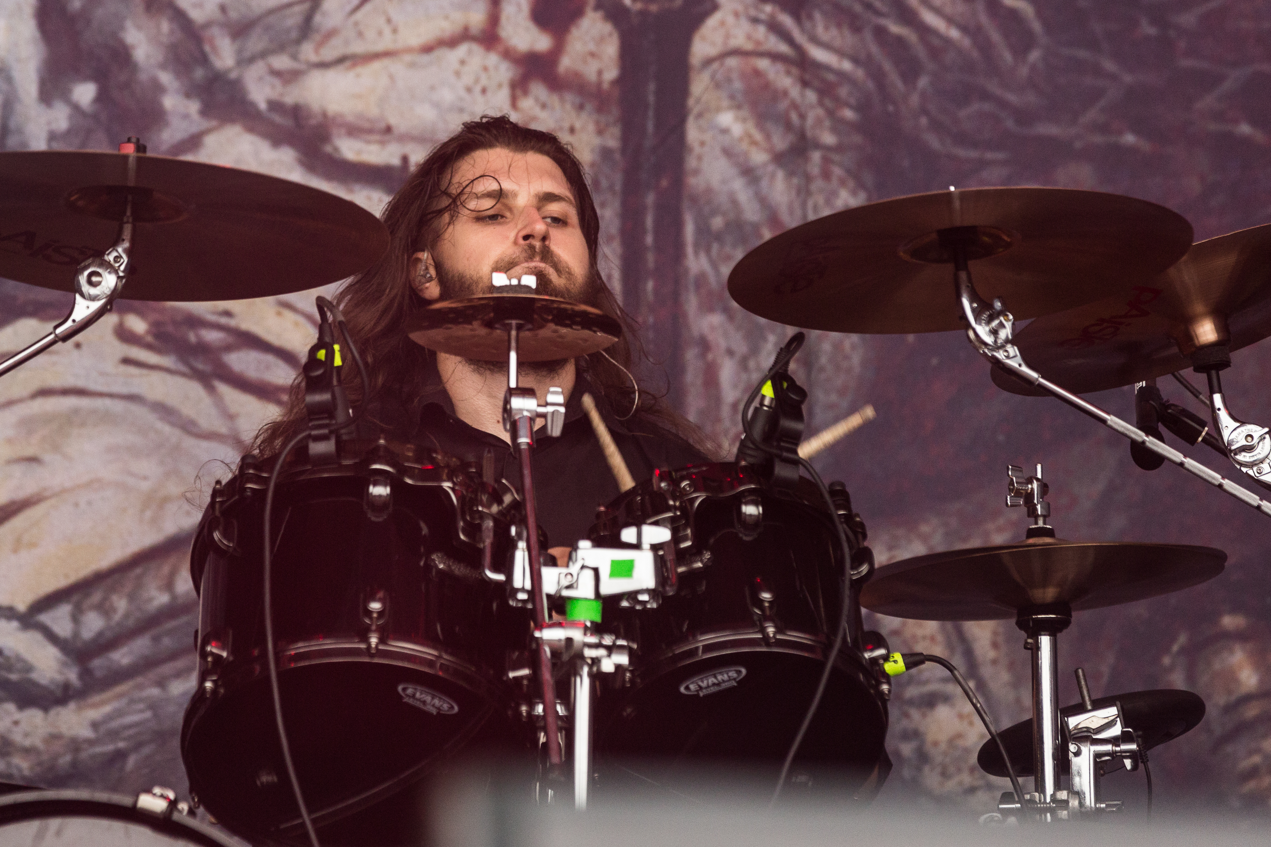 The American death metal band Vital Remains at the Party.San Metal Open Air 2017 in Obermehler-Schlotheim/Germany.